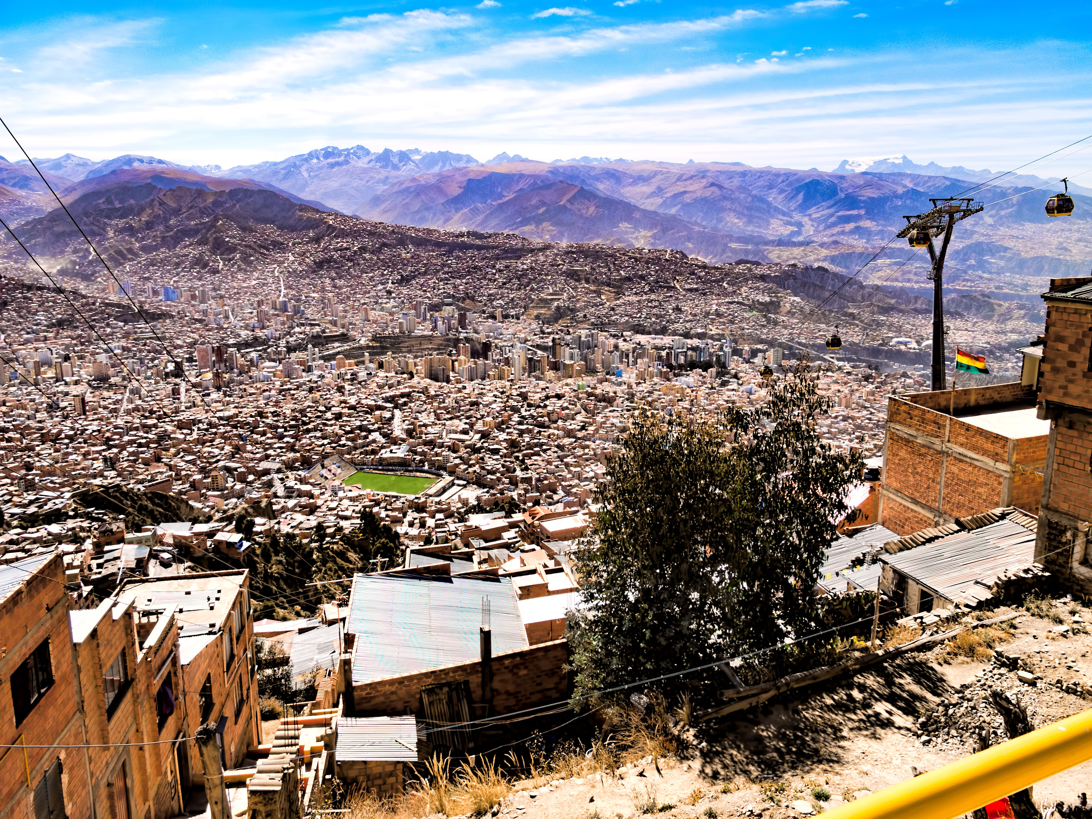 Looking down on La Paz from just below the canyon rim where El Alto is located. The large green field is Simón Bolívar Stadium (Estadio Libertador Simón Bolívar) which is most often used for soccer matches being the home field for Club Bolívar. Here the yellow line of cable car system Mi Teleférico connects the lower valley of La Paz with the city El Alto. Photo taken 2017. La Paz (elev.3,240m/11,942ft) was founded in the Andes by the Spaniards in 1548 in a canyon created by the Choqueyapu River. The administrative capital of Bolivia shifted to La Paz in 1898 while Sucre remained the constitutional and judiciary capital. On the western rim of the canyon on the Altiplano (High Plain) is the satellite city of El Alto (The Heights; elev. 4,150m/13,615ft) where there is flat land for the airport. The area was uninhabited until 1903 when the railroad reached the canyon rim and railway workers settled there to staff the railyards and depots. The district was politically separated from La Paz in 1985 and then formally incorporated as a city in 1987. Today El Alto is the second-largest city in Bolivia (after Santa Cruz) and the highest major metropolis in the world. The population is mostly indigenous, primarily Aymara. On Google Earth: canyon-rim viewpoint 16°31'3.04"S, 68° 8'59.57"W